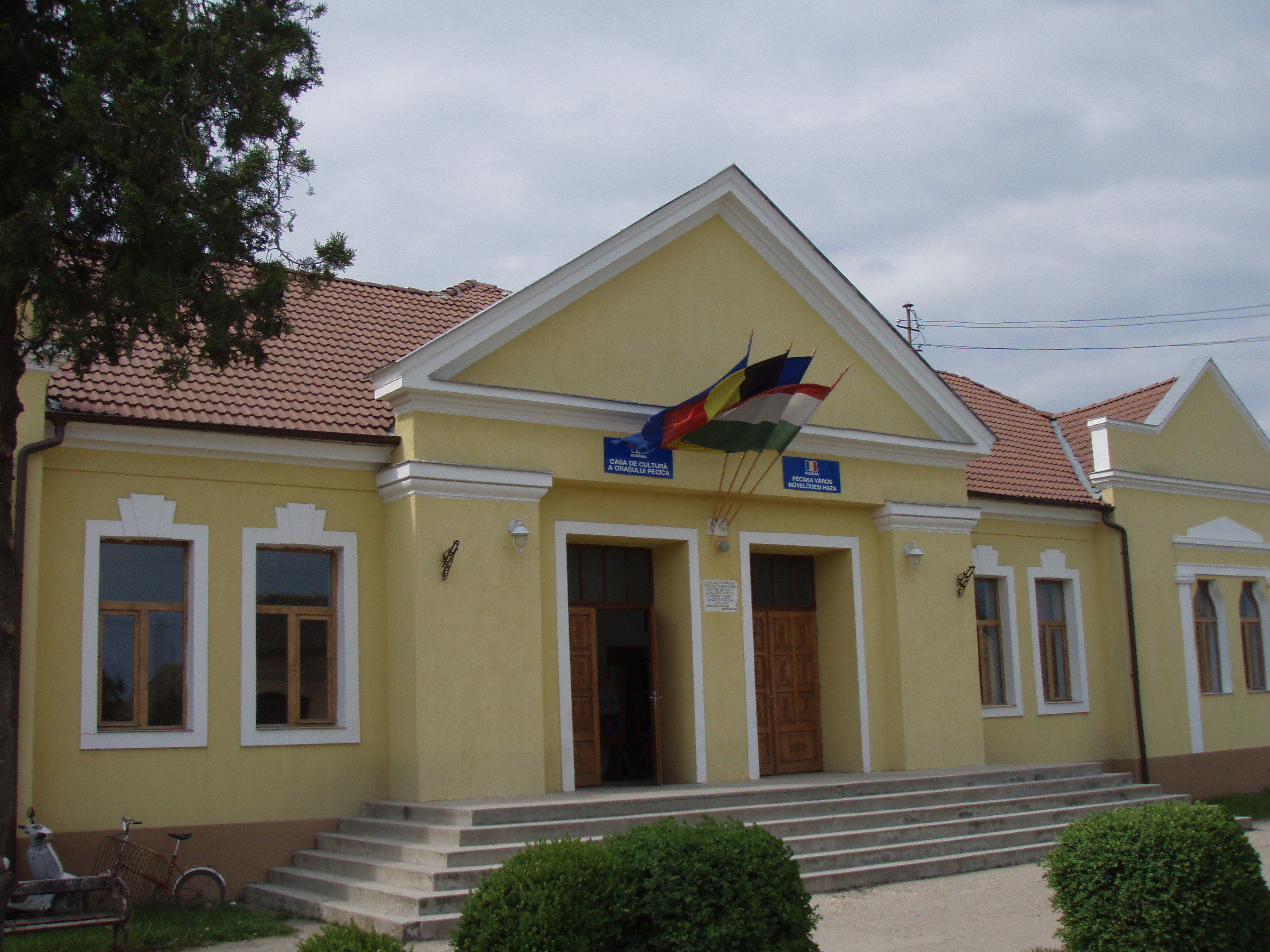 Pecica Cultural Center, Arad County, Romania.